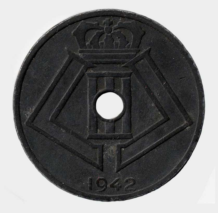 Leopold III monogram on a 1943 25c Belgian coin